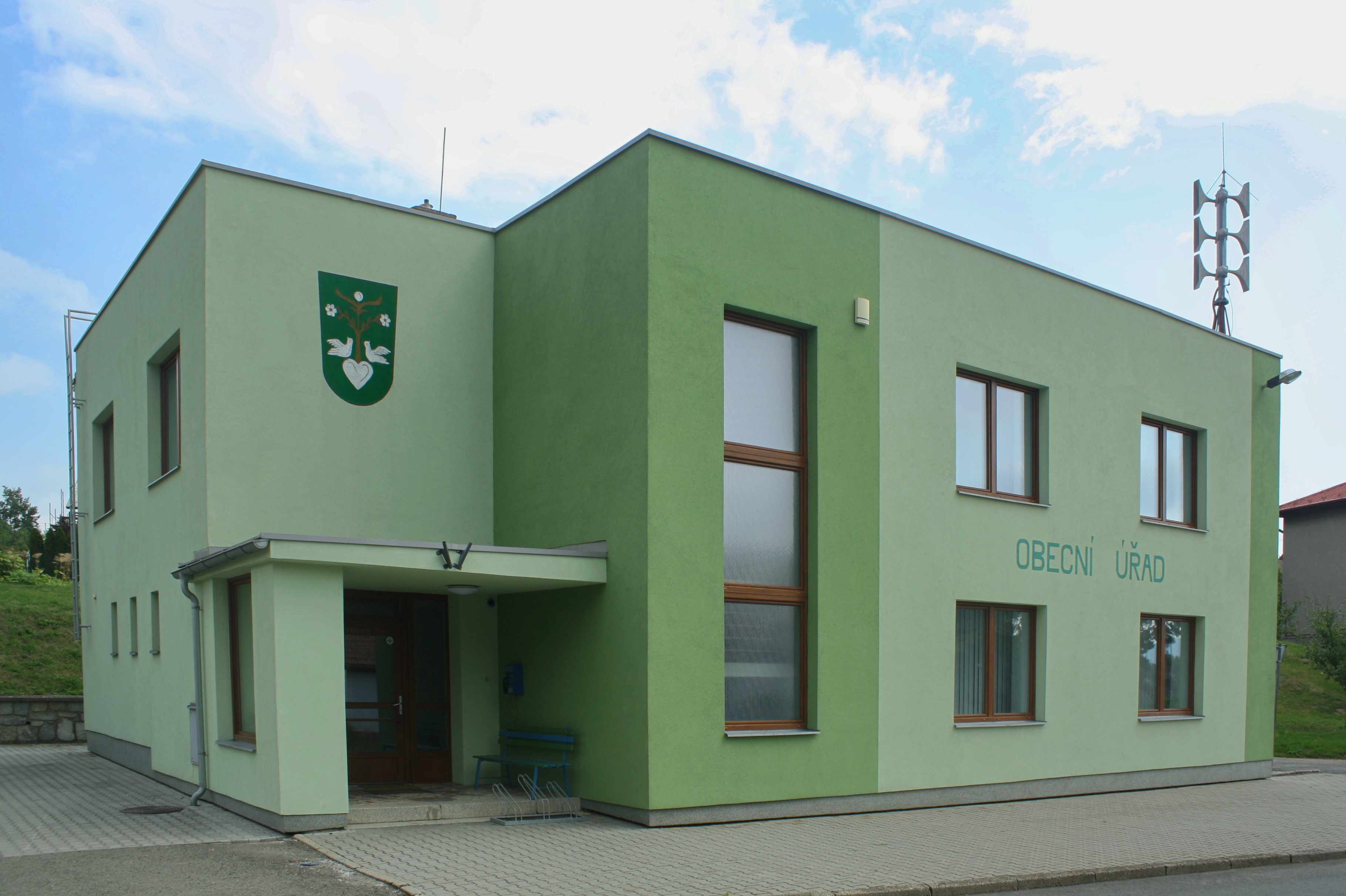 Municipality Milenov, Nový Jičín District, Moravian-Silesian Region, Czechia